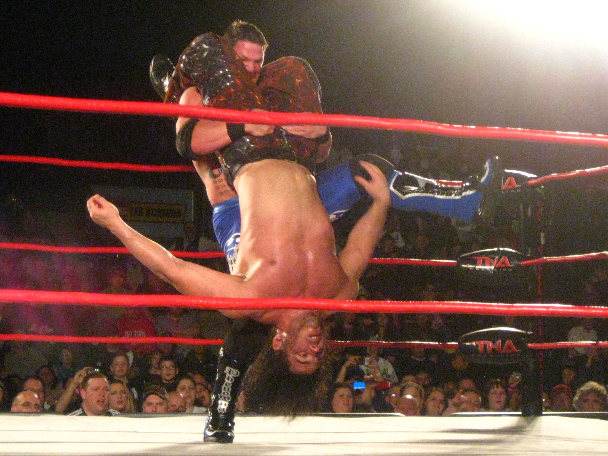 A TNA Live! Even at the ShoWare Center in Kent, WA. No PRO cameras were allowed so I had to put my Canon PowerShot SD1100 IS to work!